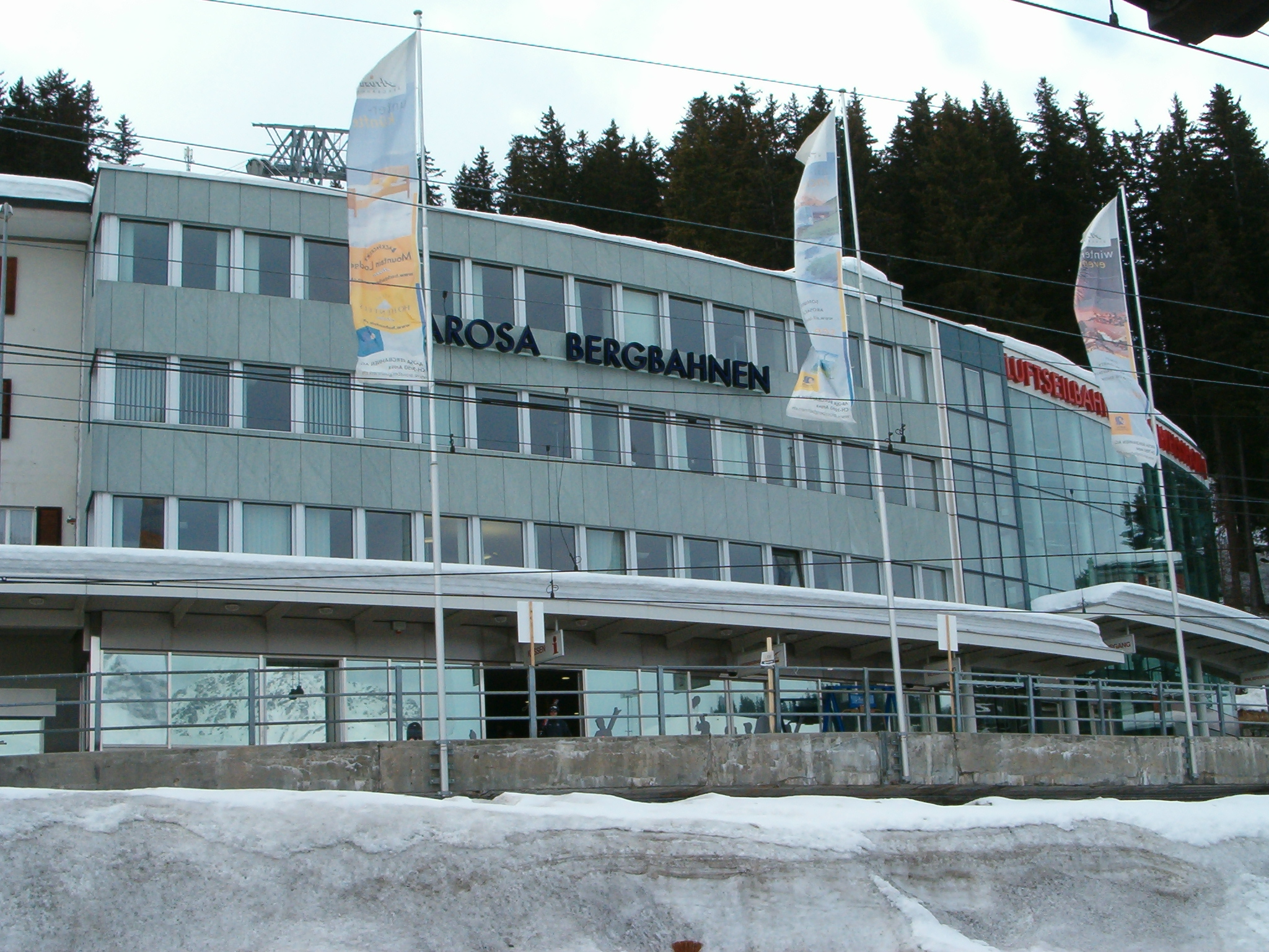 Seat of Arosa Bergbahnen & Weisshornbahn, Arosa/Switzerland